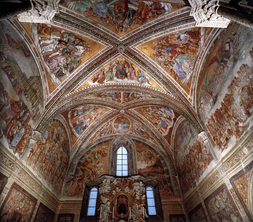 SIGNORELLI, Luca Frescoes in the Chapel of San Brizio Frescoes Chapel of San Brizio, Duomo, Orvieto